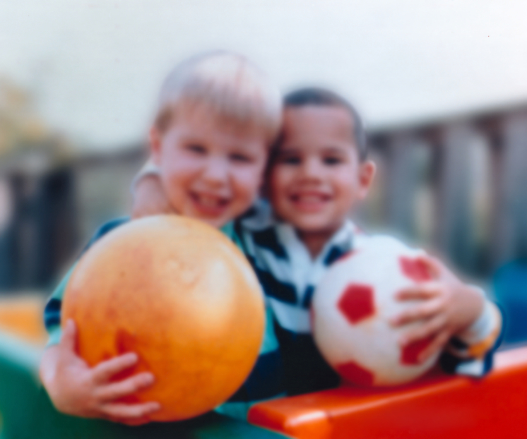 A scene as it might be viewed by a person with myopia.